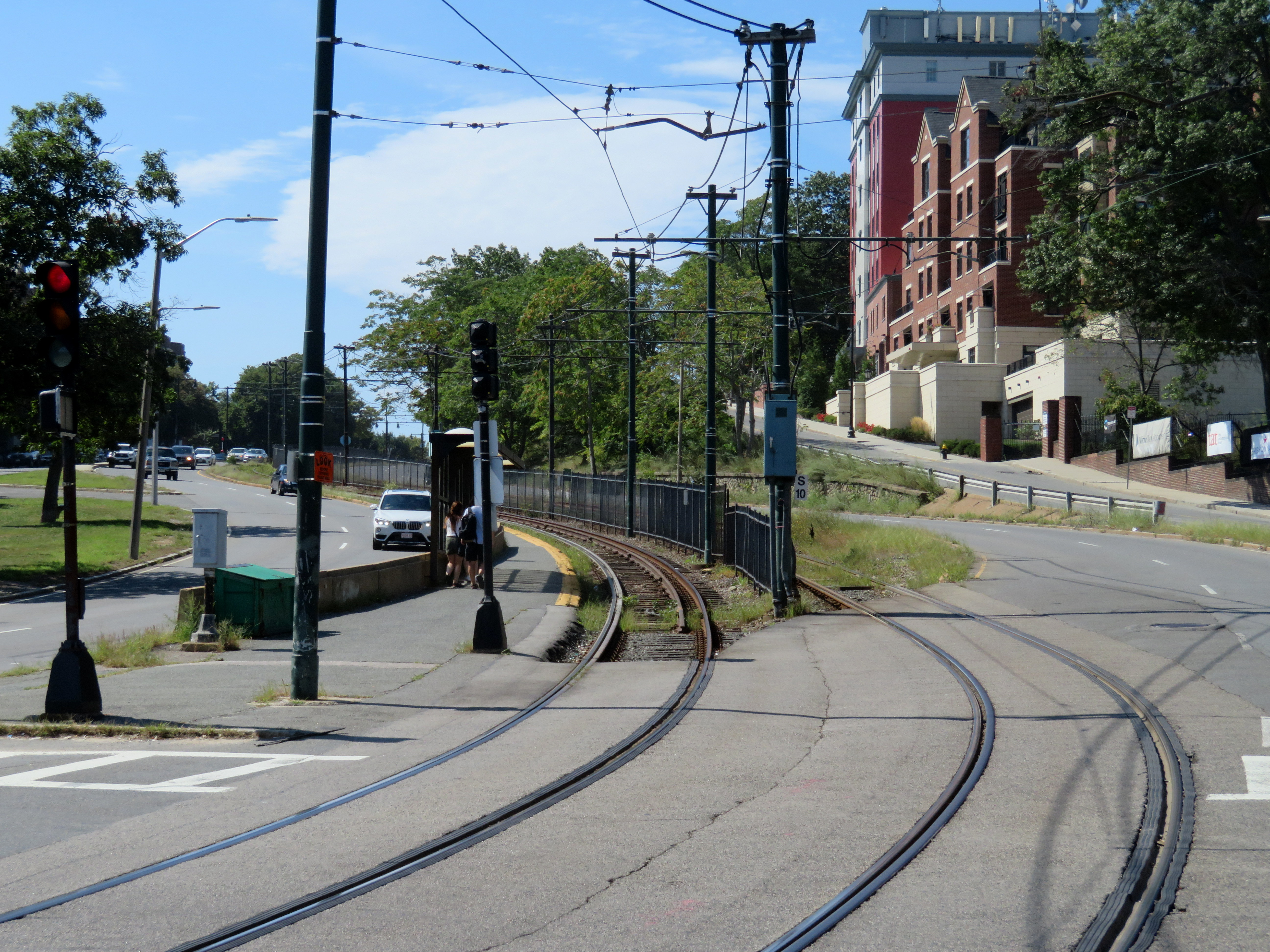 B Branch tracks crossing the outbound travel lanes of Warren Street/Kelton Street, with the inbound platform of Warren Street station in the background, in April 2017. This odd crossing dates from 1960, when new southbound travel lanes were constructed on part of the wide streetcar reservation between Warren Street and Wallingford Road.